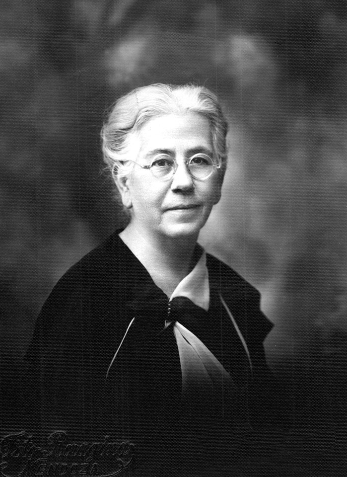 Portrait of Argentine teacher Rosario Vera Peñaloza.